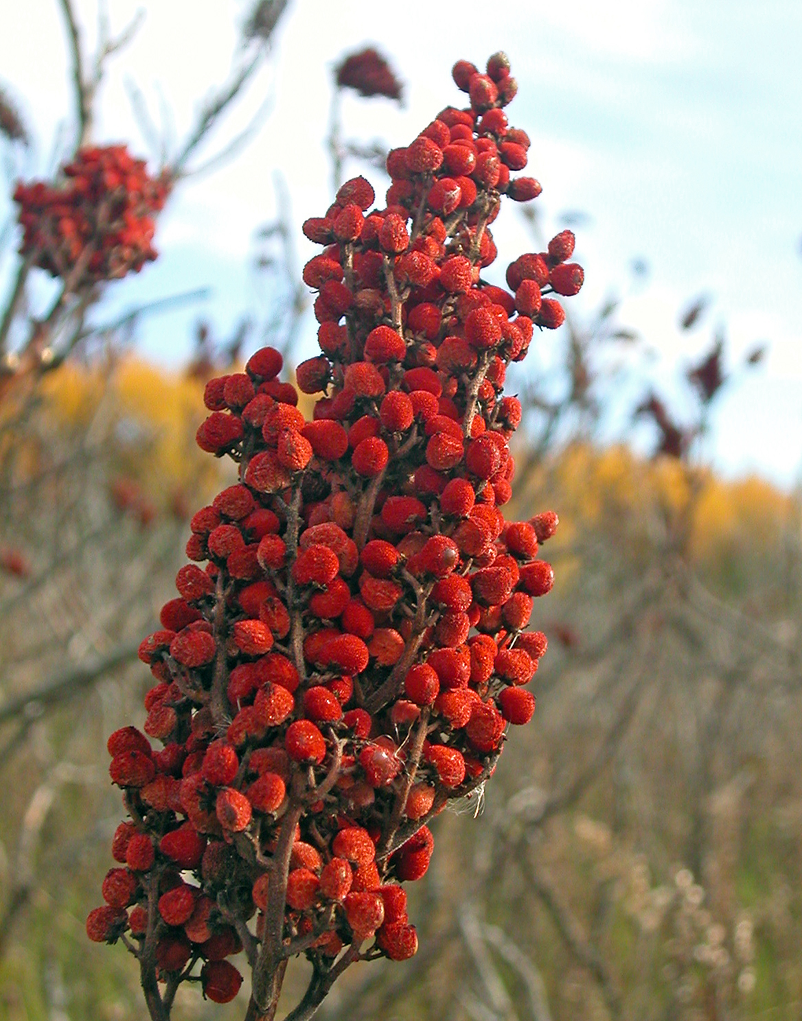 Picture of Sumac Fruit taken at Hyland Park Reserve in Bloomington, MN on Oct. 28th 2007.